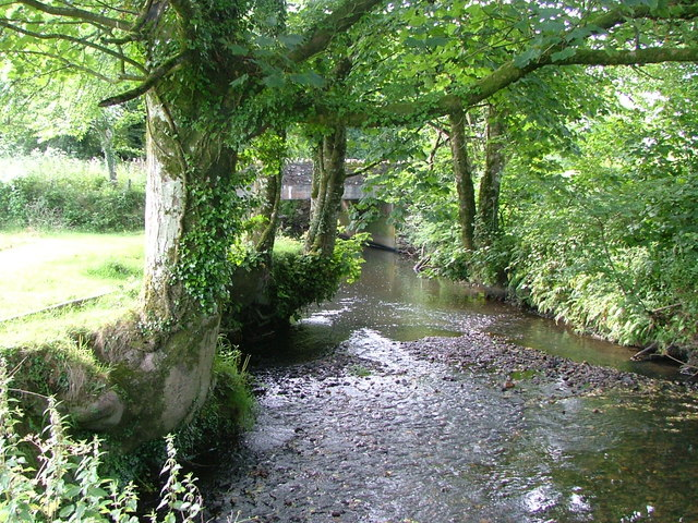 River Ottery. Situated near Broad Langdon, the road bridge can be seen in the background.